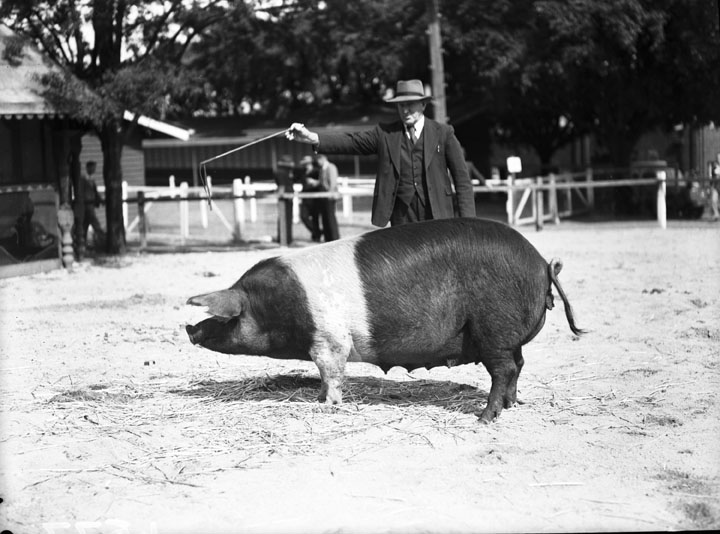 Champion Hampshire sow, Royal National Association Exhibition.